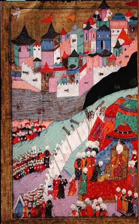 Siege of Buda (1541), Izabela Jagiellonka with her son and Suleyman